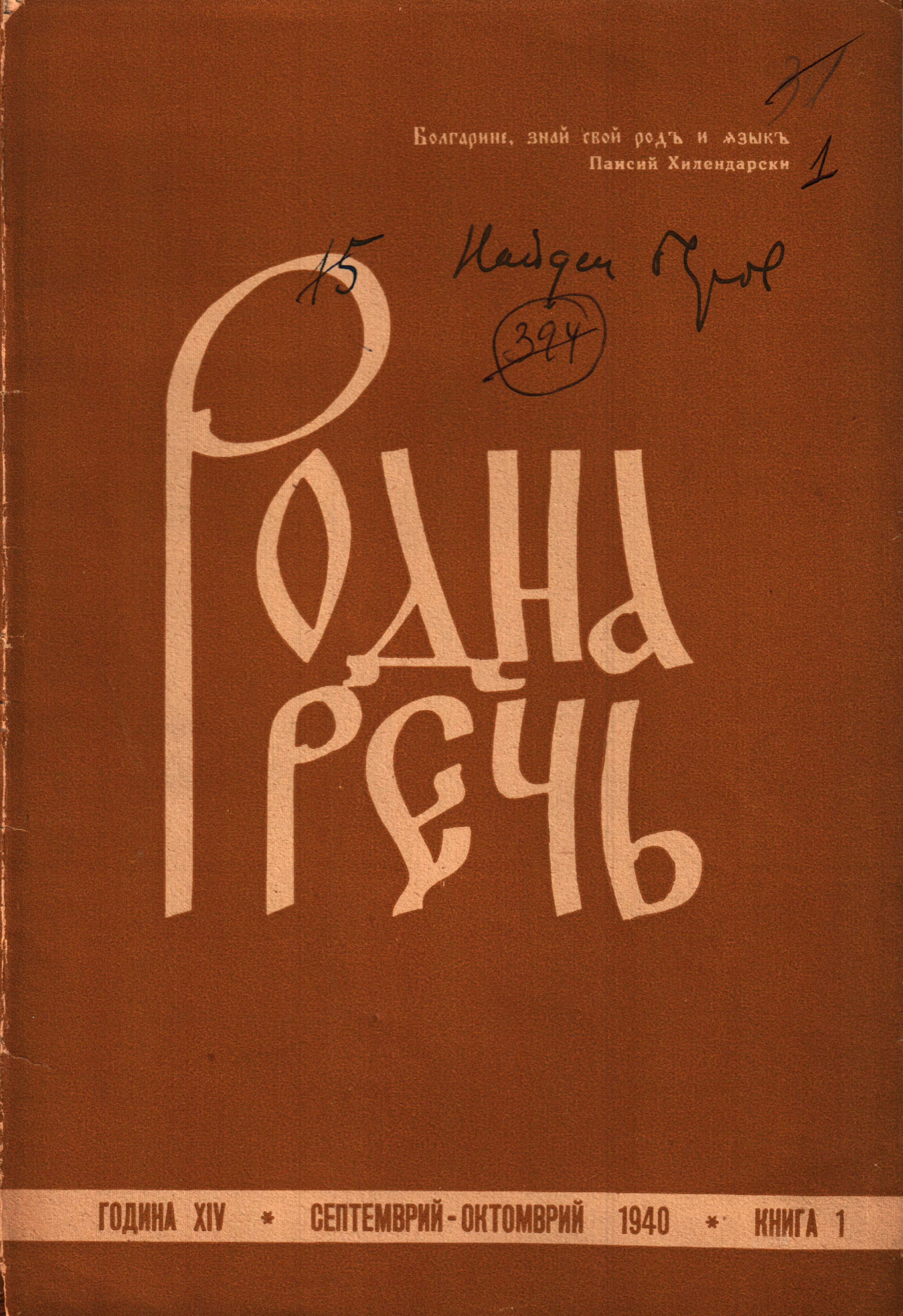 Bulgarian magazine Rodna Rech, 1940.